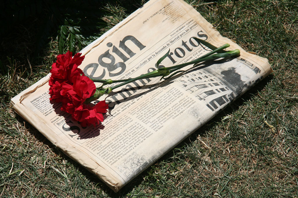 Cover of EGIN paper in 1978 Sanfermin.